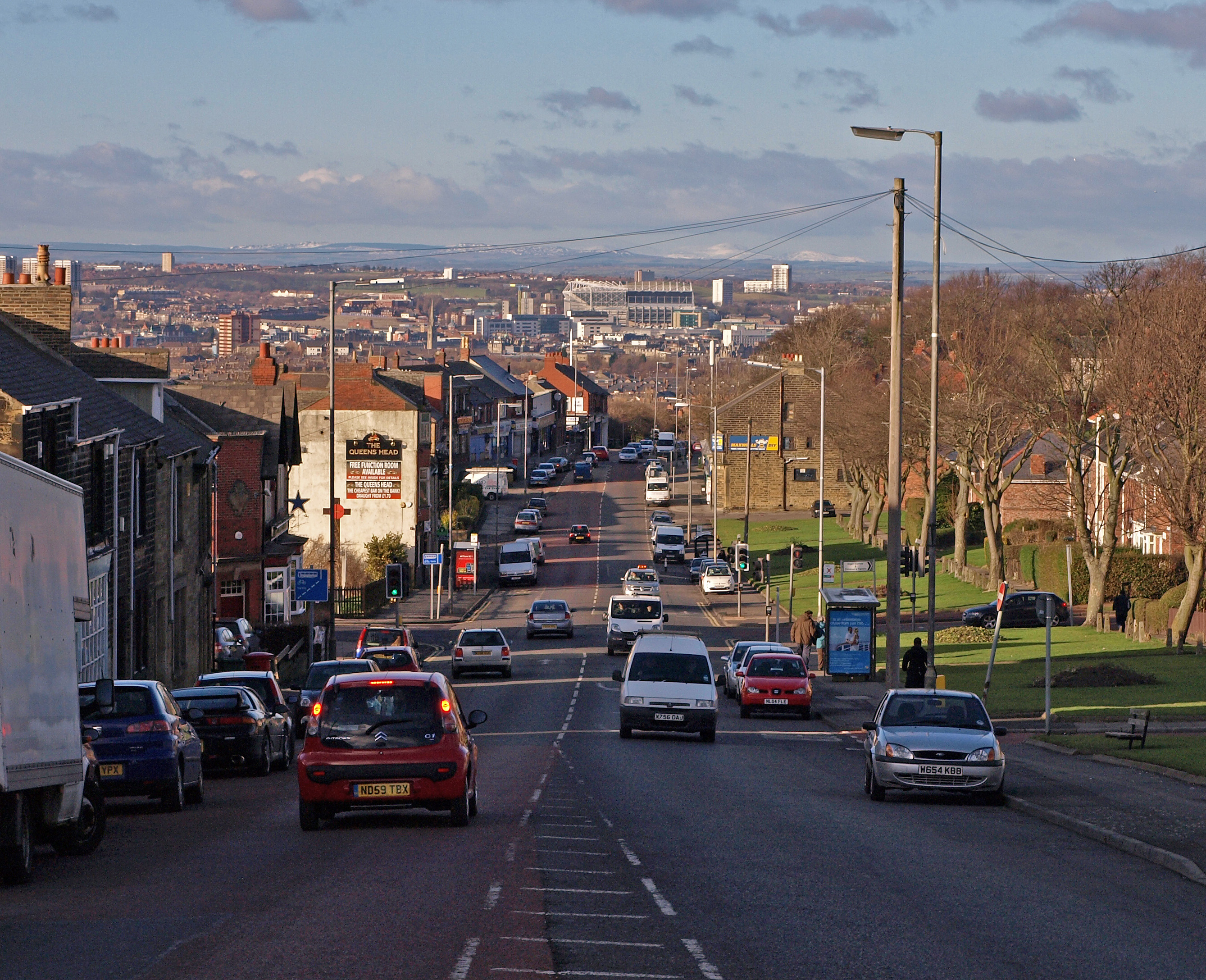 Old Durham Road, Sheriff Hill